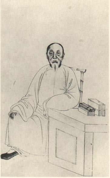 DING Yici, scholar of the late Qing Dynasty.